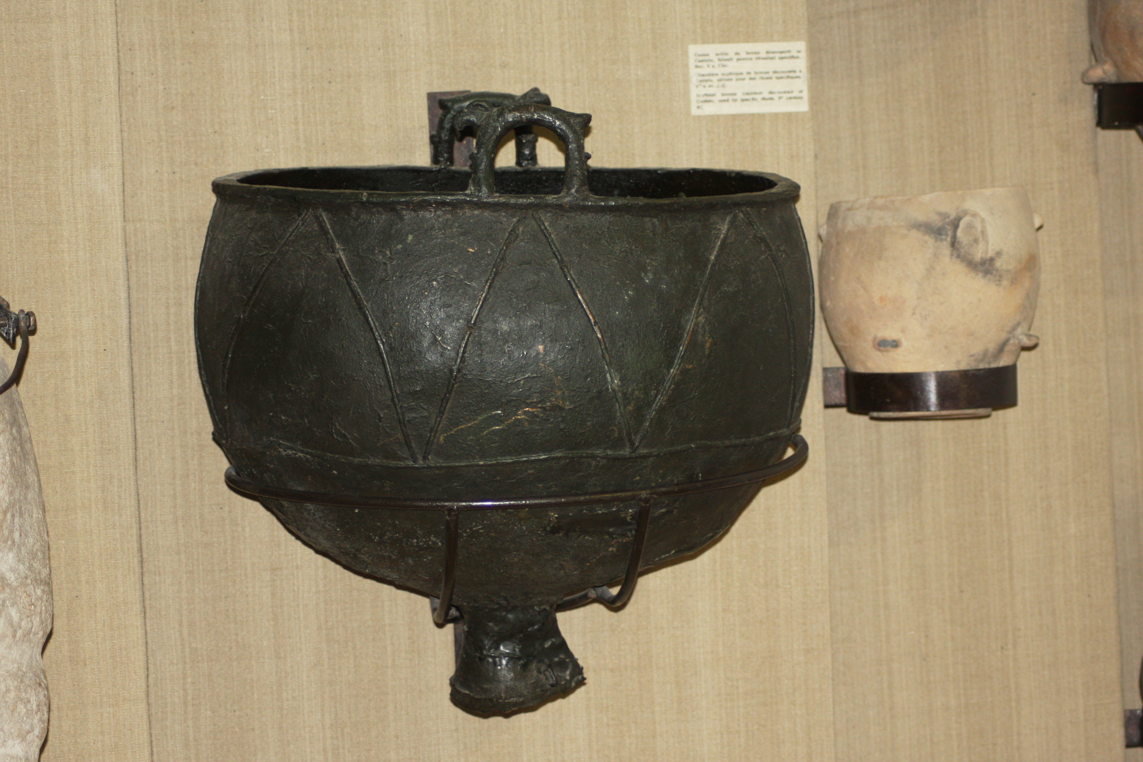 Scythian bowl, 5th century BC, found at Castelu, Constanţa County, Romania.